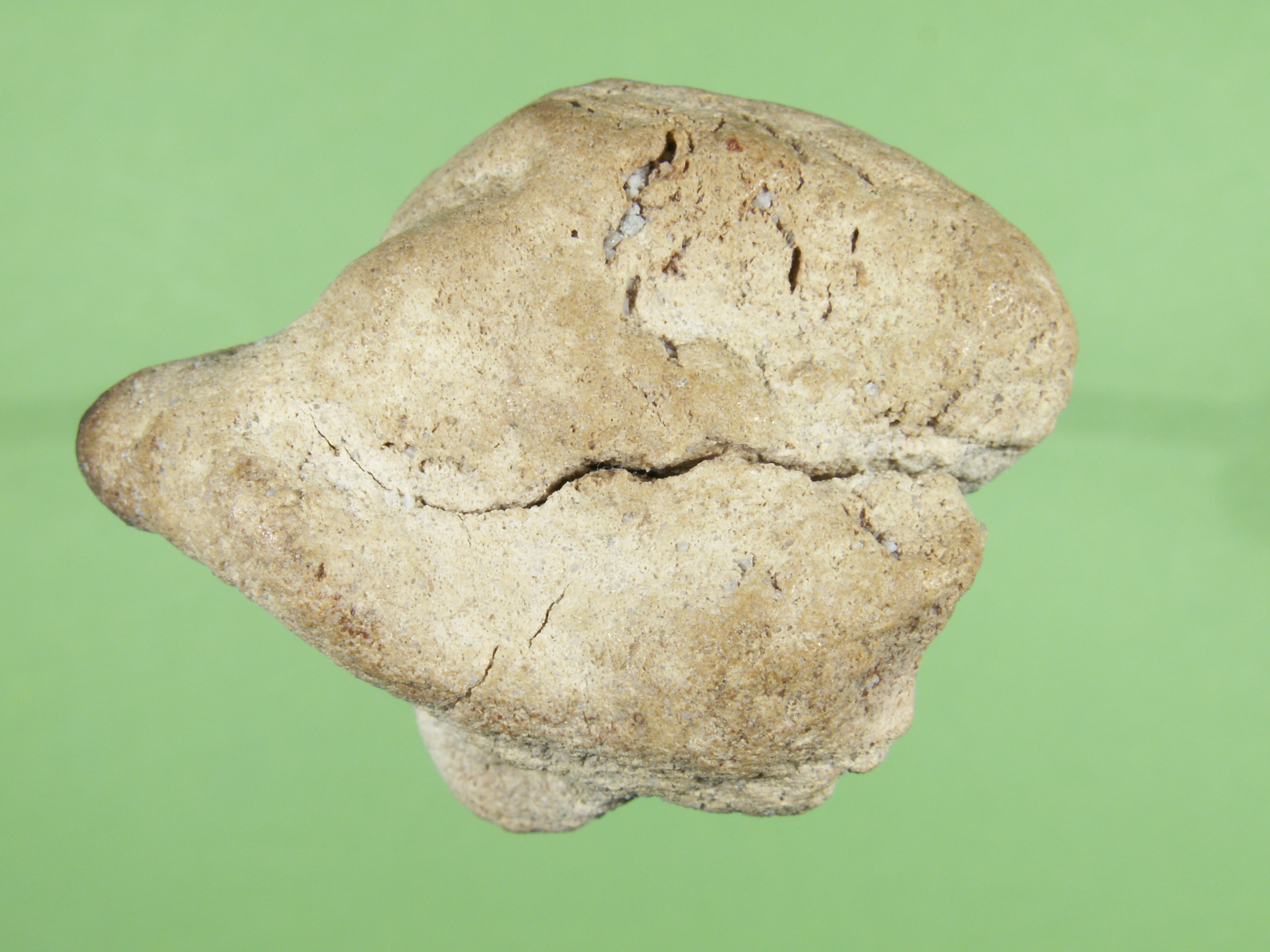 Amber from Siegburg, siegburgite